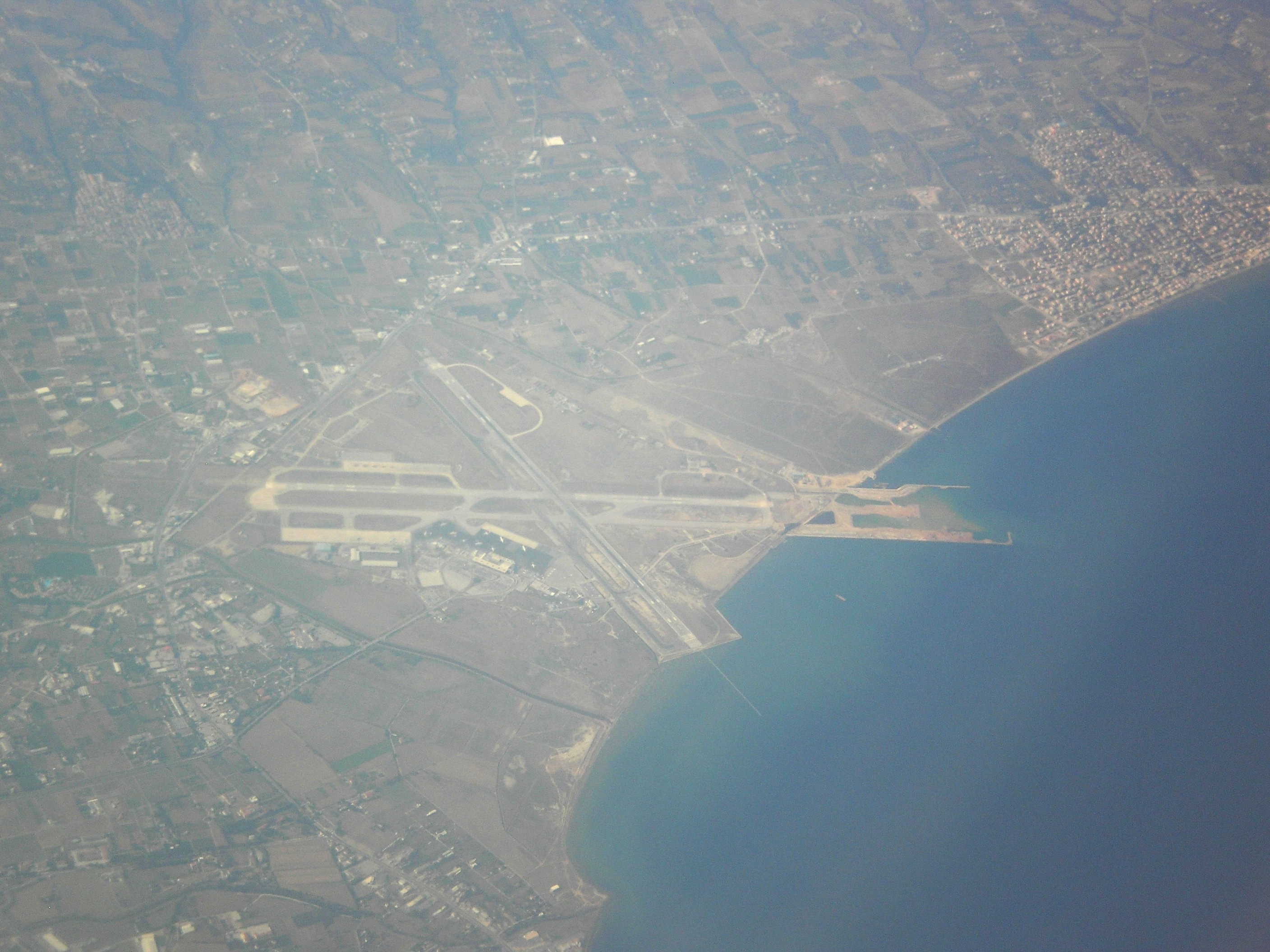 Aerial view of the Thessaloniki International Airport, "Macedonia", in Greece.